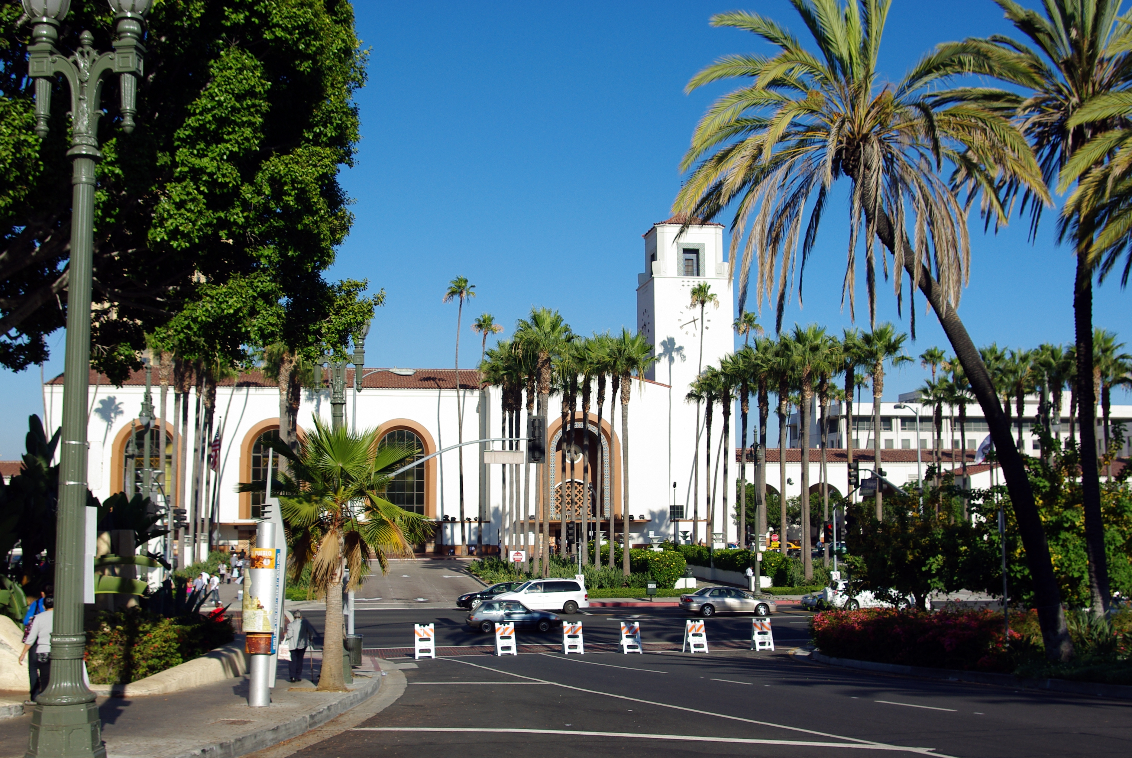 Union Station, Los Angeles